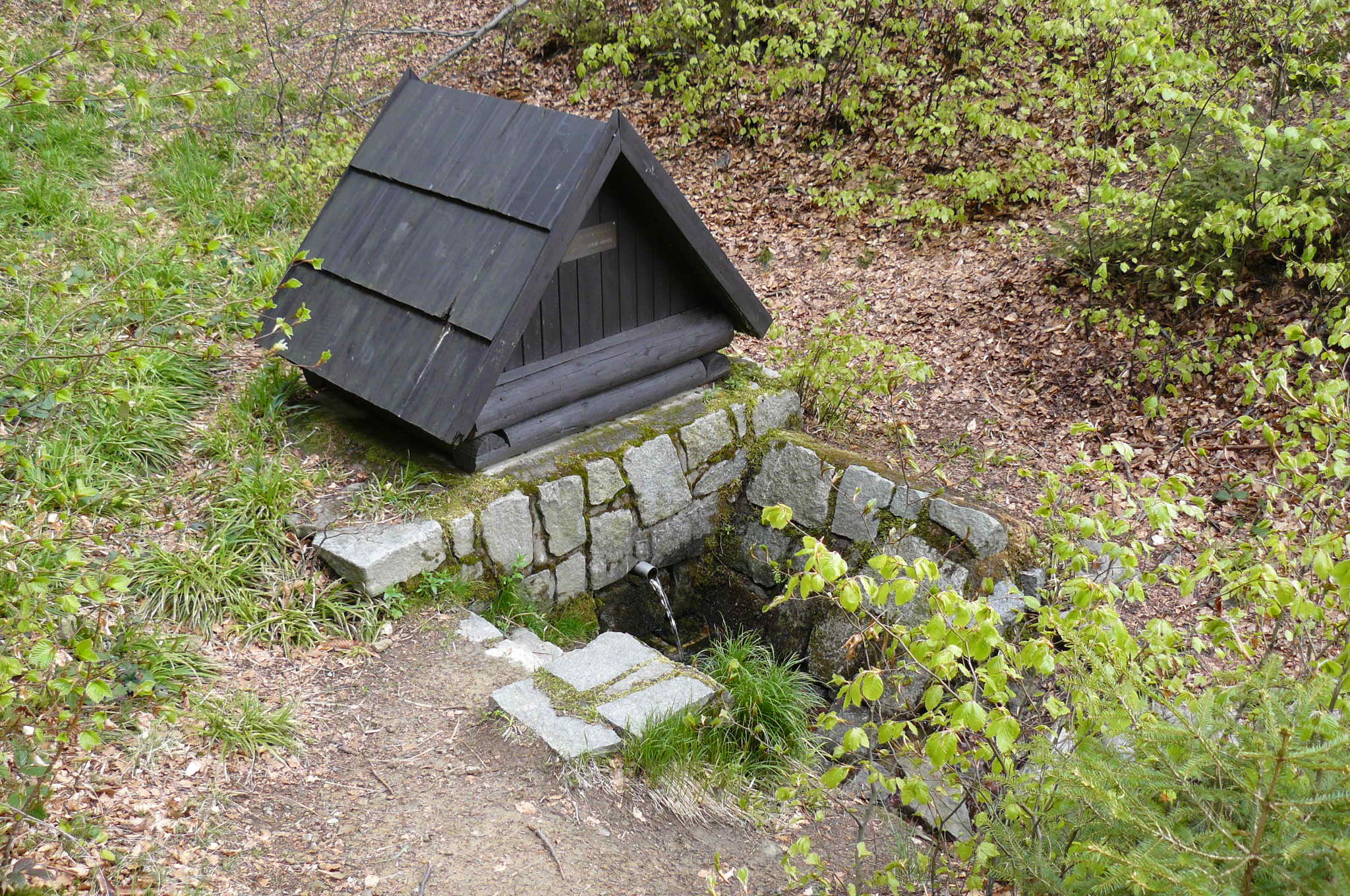 Zlata Studanka, Strakov.